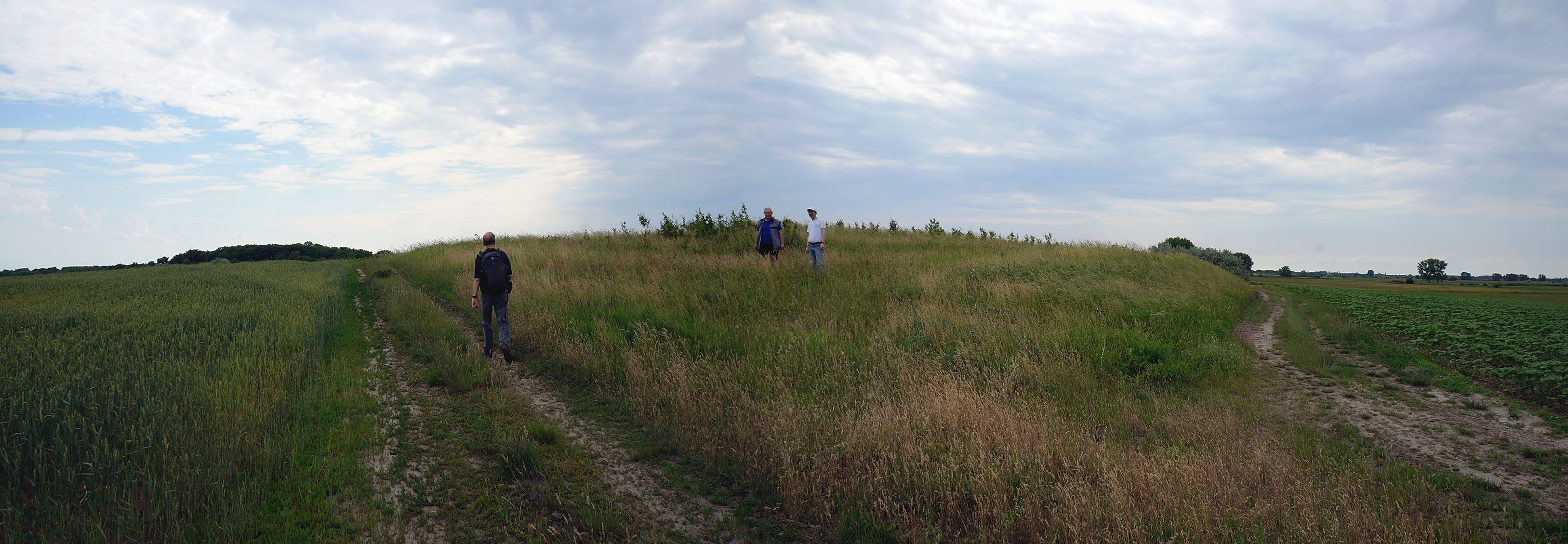 Kurgan Budžak near Horgoš, Serbia. In the life of ancient peoples the reconnaissance was of priority importance, so they carefully searched high points for their settlements. Although this mound now seems small and flat, even today this is the best observing spot in the area, an elevation point from where one can see kilometers around. In the basin at right once the river Tisza flew (thousands of years ago), so this may have been a haven as well in the times of kurgan building peoples. Code: BAC434